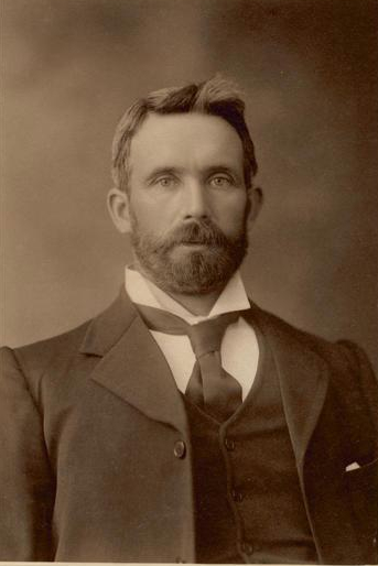 This image shows a photograph of Hugh de Largie, taken between 1900 and 1909. Under Australian law, all photographs taken in Australia before 1955 are in the public domain. This image is in the public domain under both Australian copyright law and US copyright law.